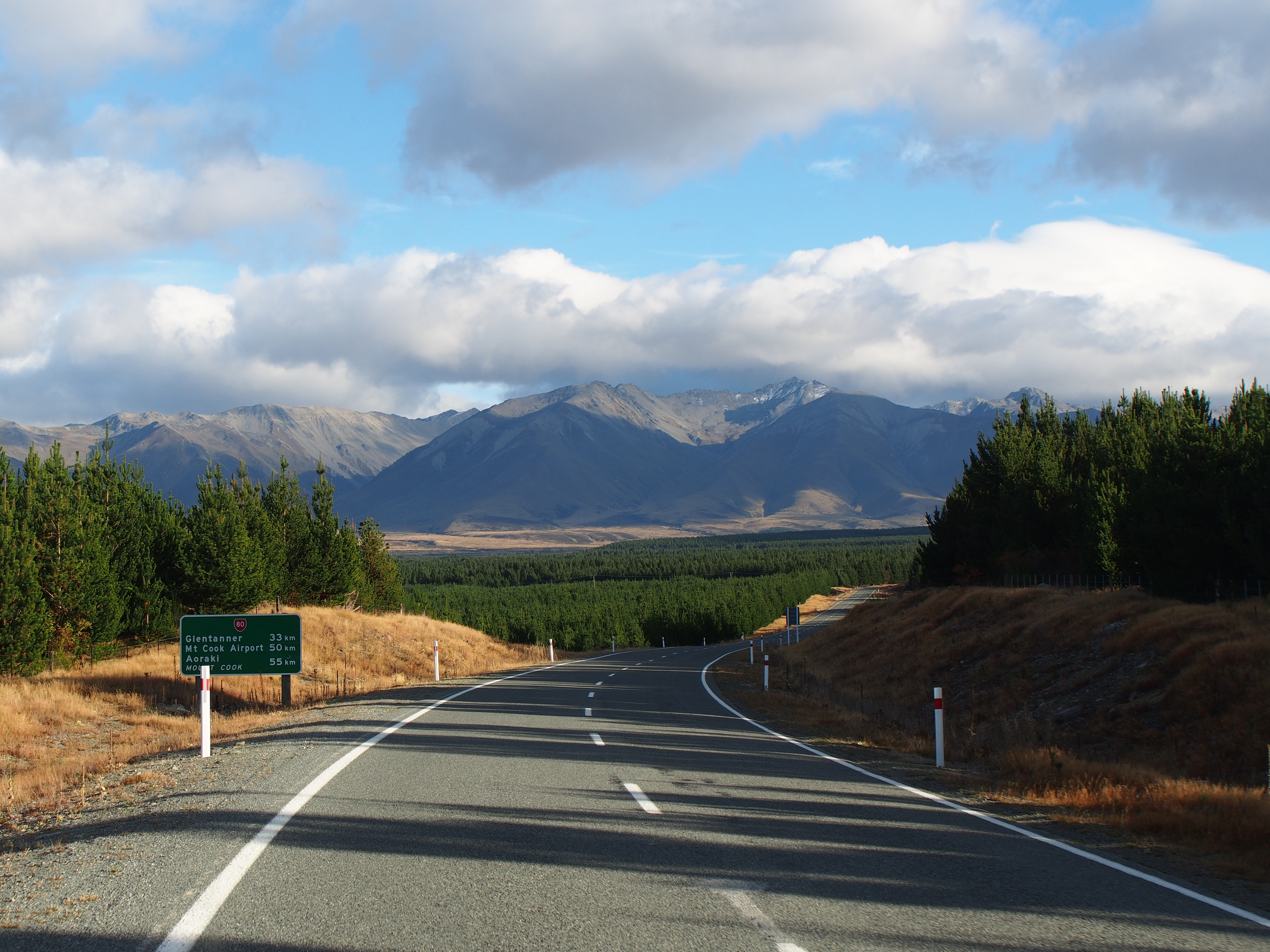 Mount Cook Road - 2013.04